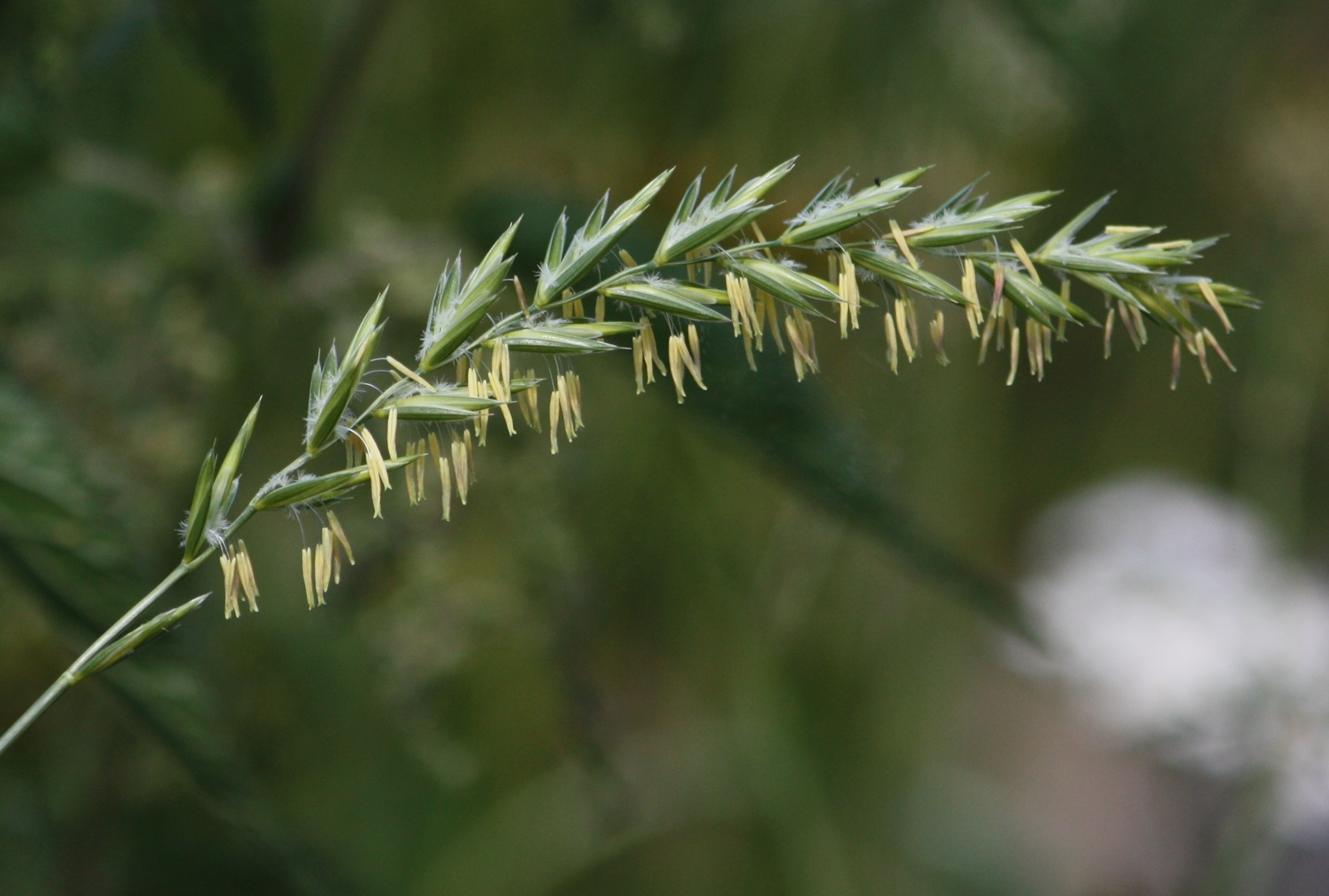 Couch grass, twitch, quick grass, quitch, dog grass, quackgrass, scutch grass or witchgrass (Elytrigia repens) blooming in Kerava, Finland